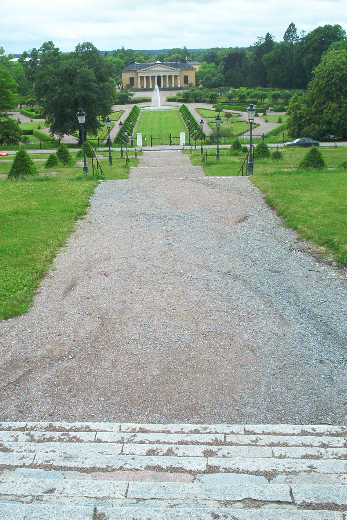 View of the Uppsala University Botanical Garden and the Linnaeanum building from the terraces leading up to Uppsala Castle.